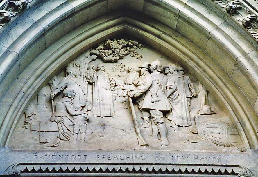 bas relief by Charles Niehuas "Davenport Preaching at New Haven" at CT Capitol